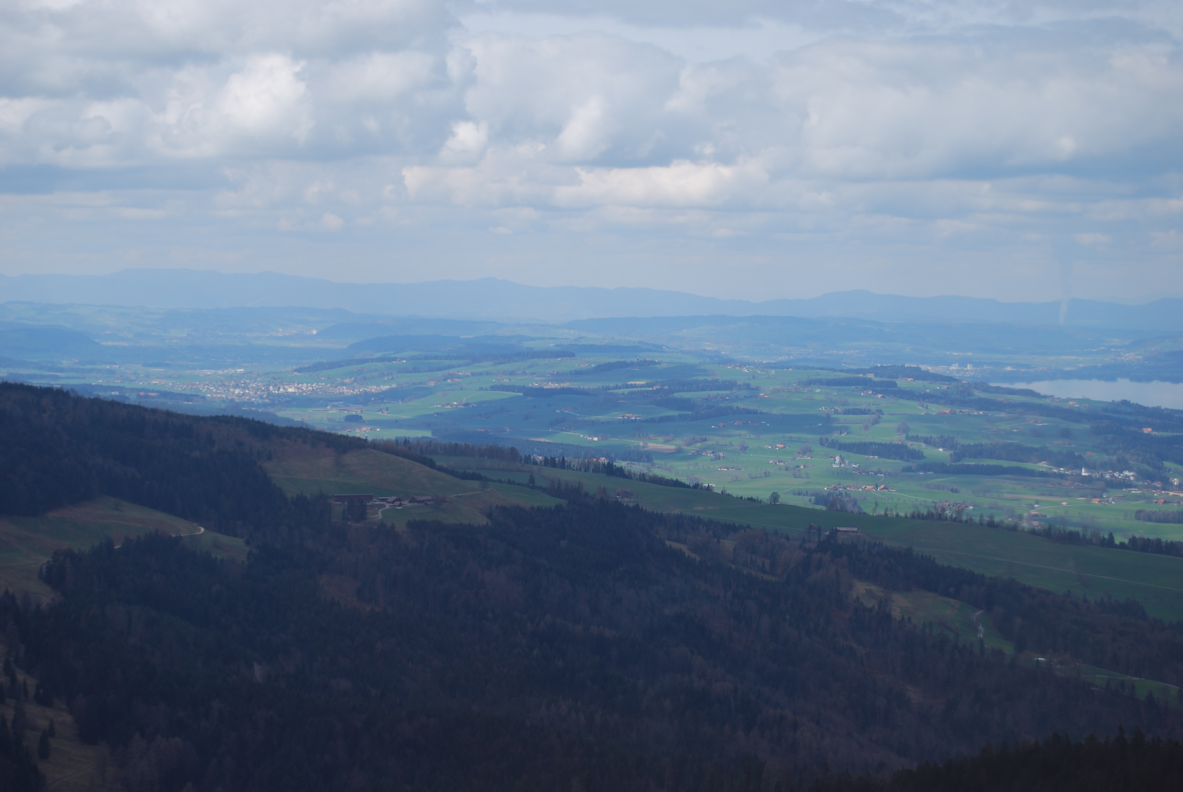 Panoramic view from Pilatus Grosswangen (at left), and Sursee at the Lake Sempach, canton of Luzern, Switzerland.